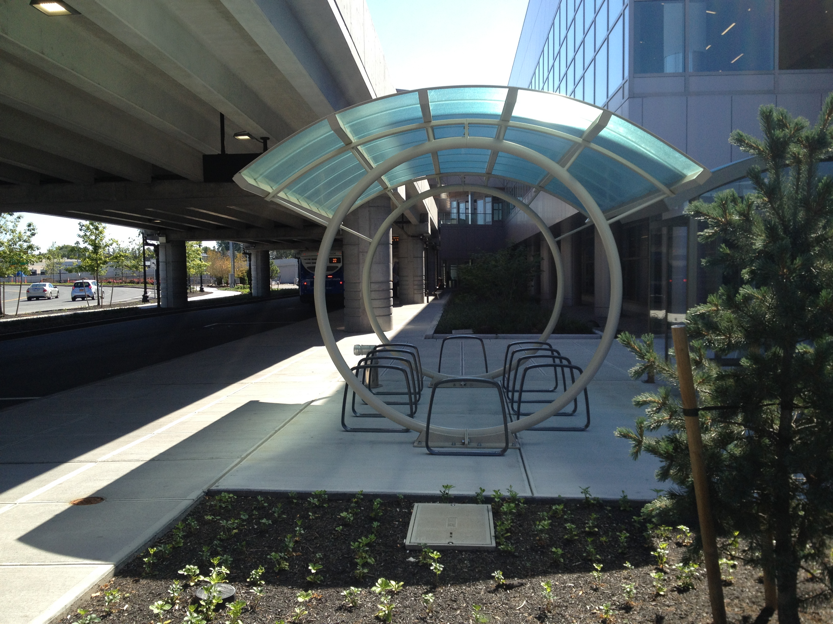 Bicycle parking outside the Rental Car Center at Boston's Logan Airport, near airport shuttle bus loading area.